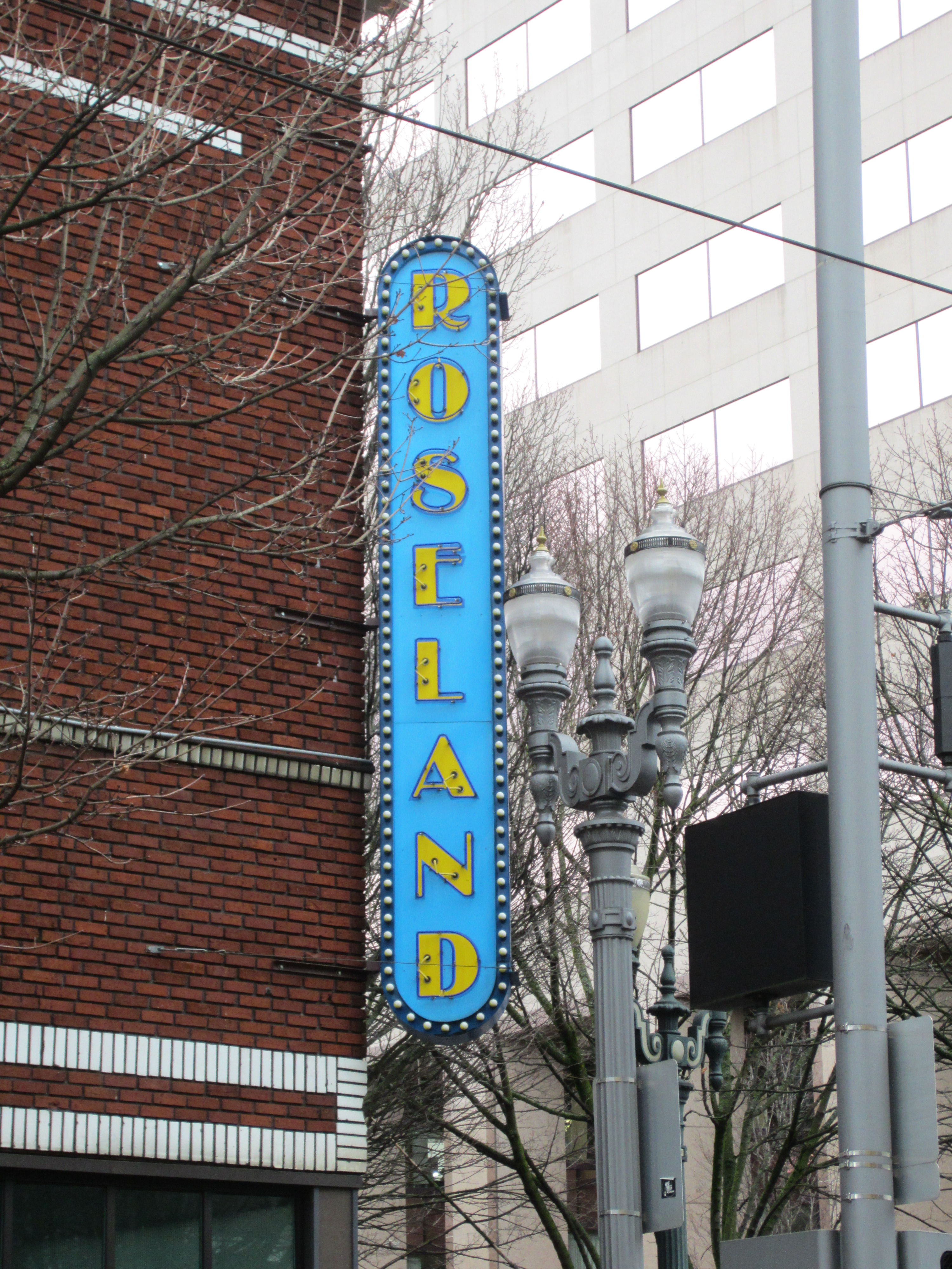 Roseland Theater, Portland, Oregon (2014)